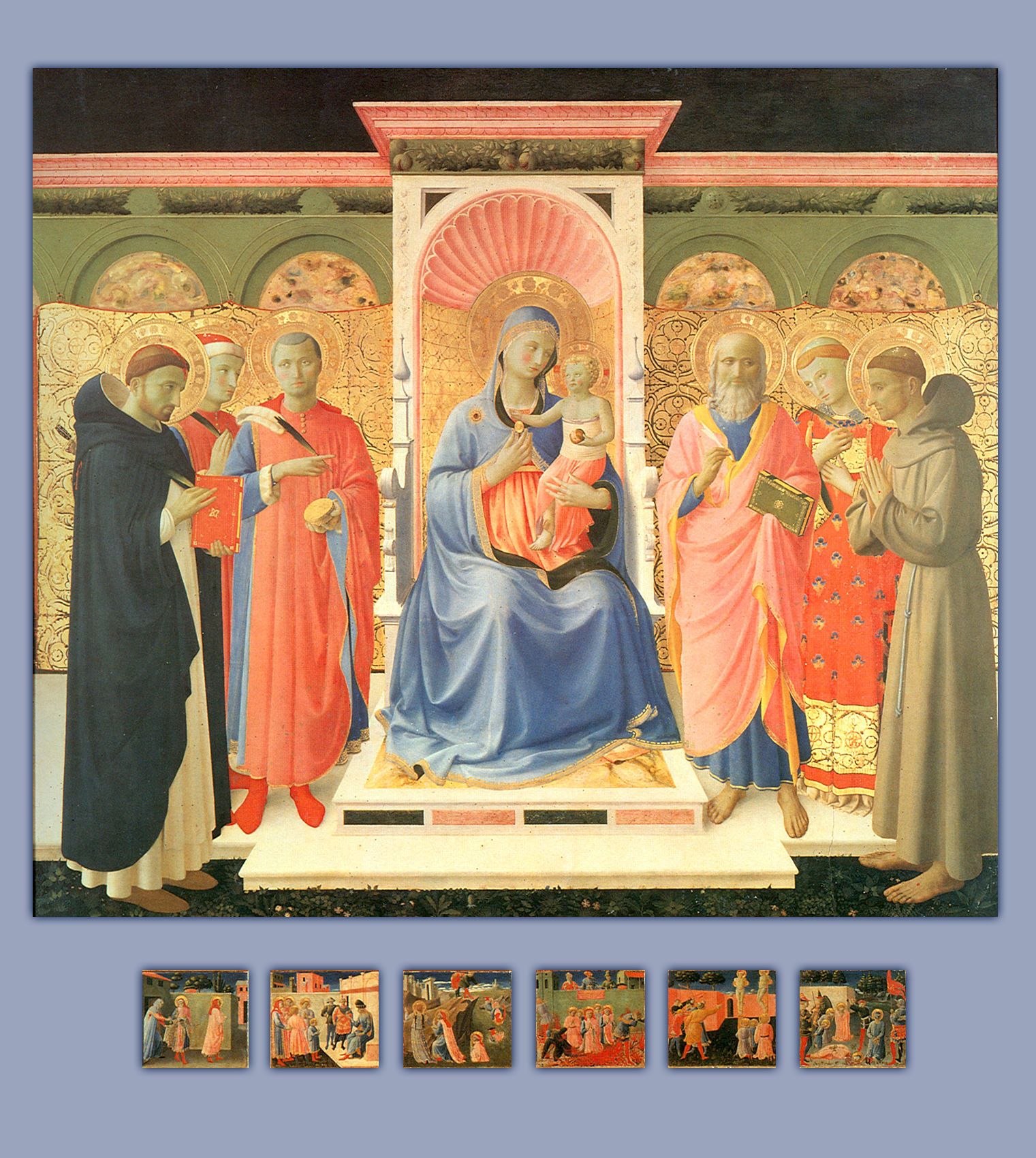 Altarpiece with Predella. Three Saints are at each side of the Madonna, left Saint Peter of Verona and Saints Cosmas and Damian, right Saint John the Evangelist. The predella consists out of six paintings with stories about Saints Cosmas and Damian: Saint Damian accepts money from Palladia; Saints Cosma and Damiano in front of proconsole Lisia; Saints Cosma and Damiano are rescued by an angel; Saints Cosma and Damian are sentenced to die by fire; martyrdom of Saints Cosma and Damian